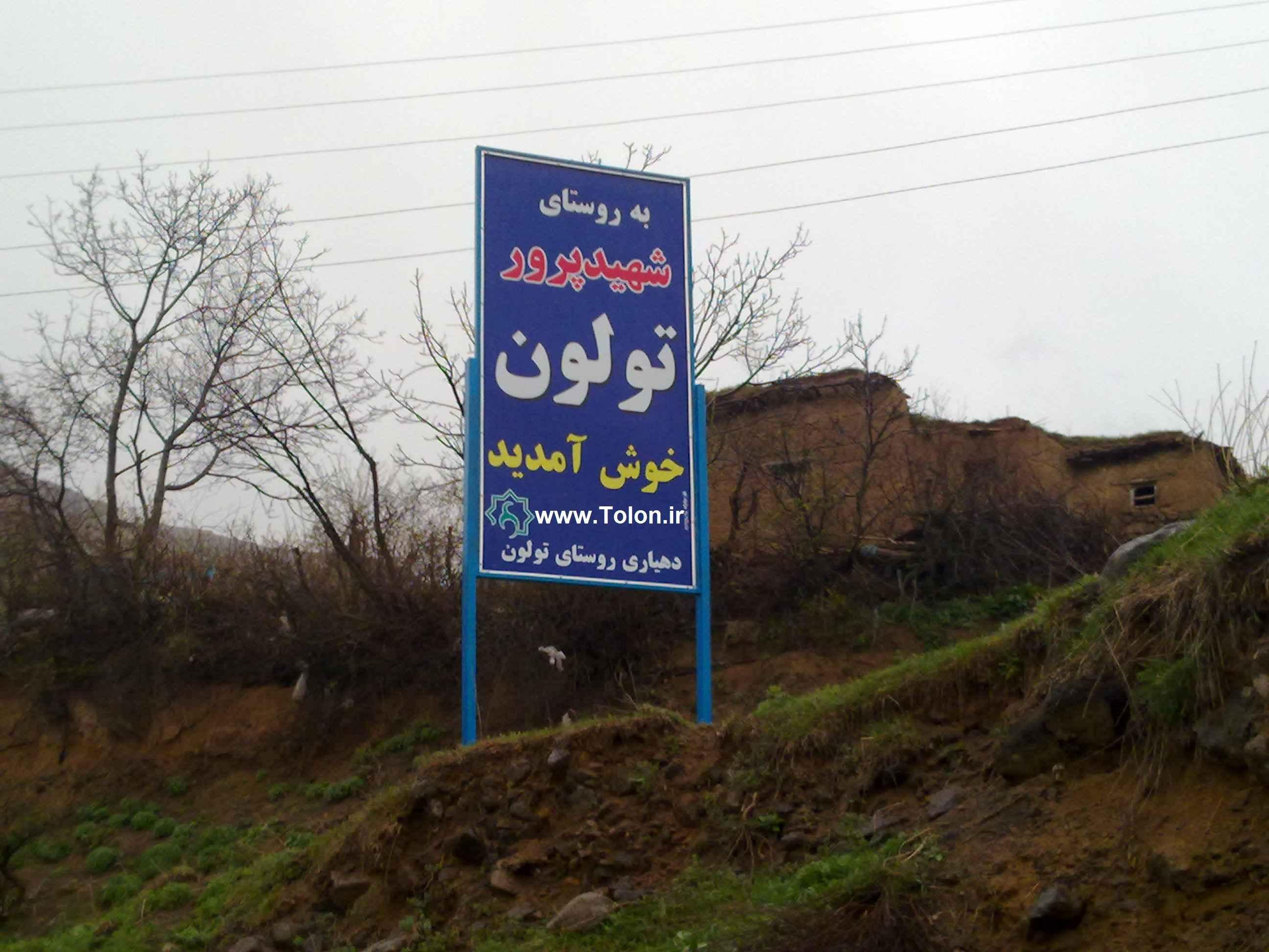 Entrance board of Tolon village.